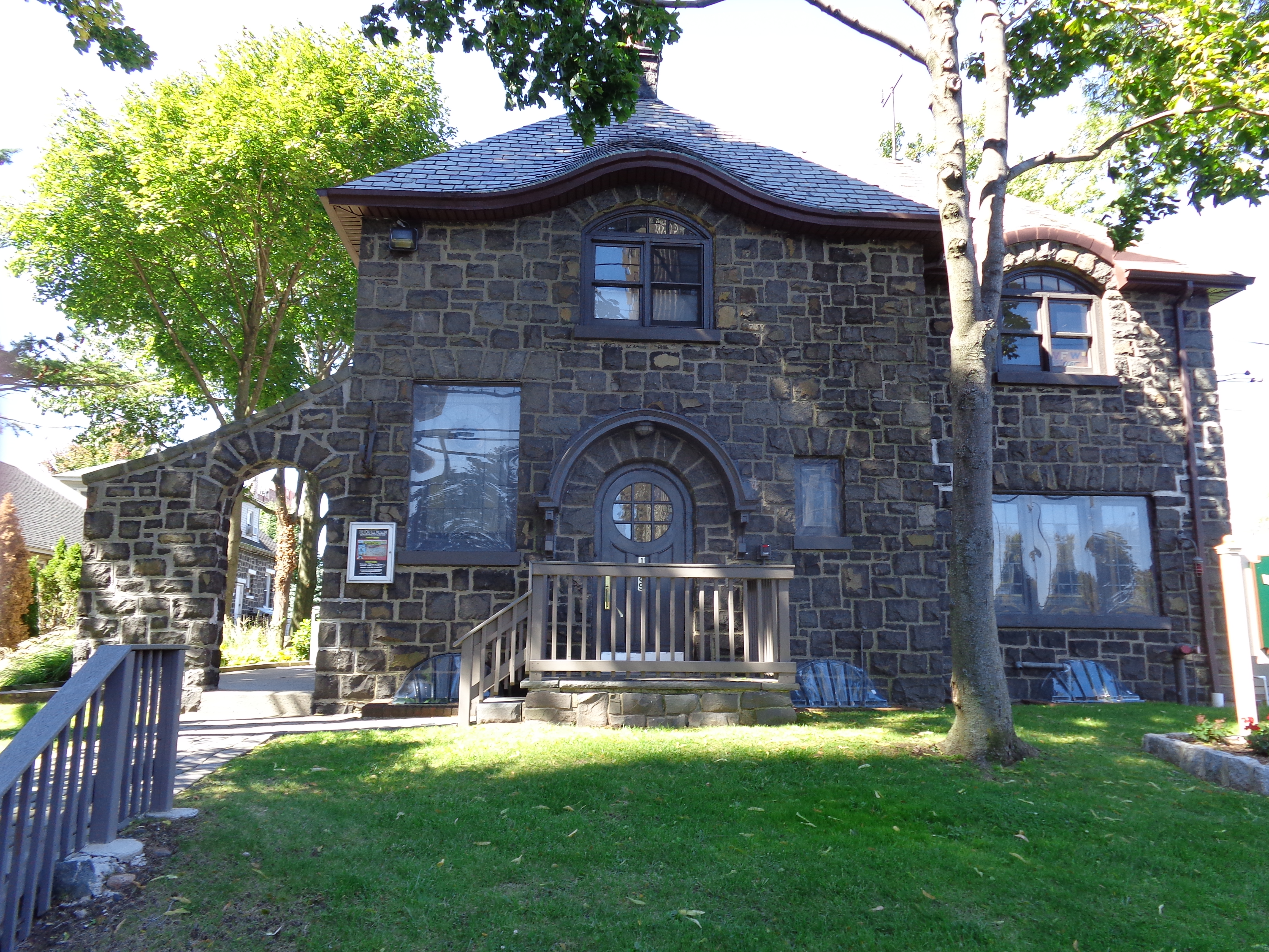 The Fort Lee Museum, opened in 1999, in the Judge Moore House built in 1922 out of Palisade blue stone on grounds once the Revolutionary War encampment.